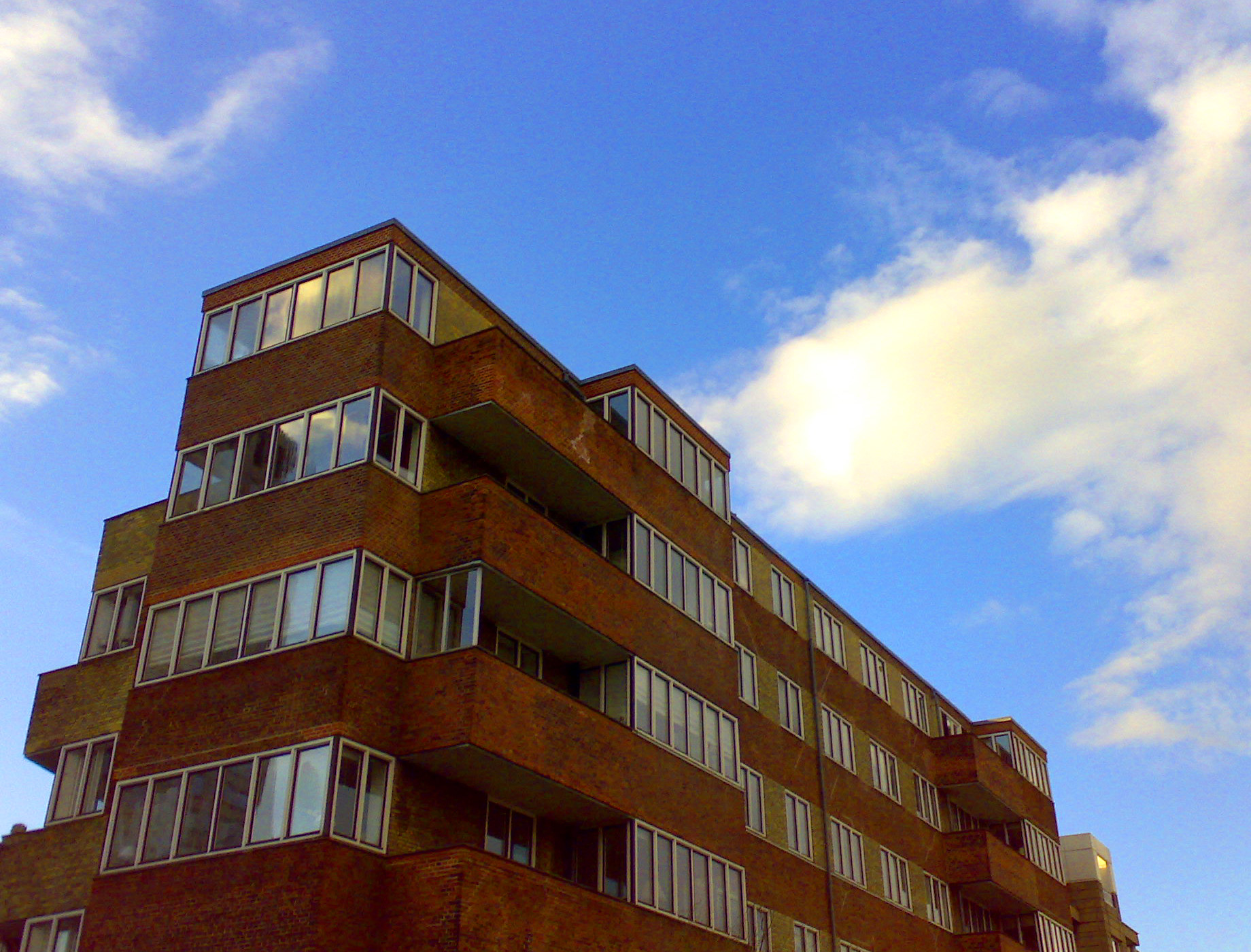 Architects: A residential building in the Frederiksberg district of Copenhagen, Denmark. Known as 'Strygejernet' and designed by Kay Fisker and C. F. Møller